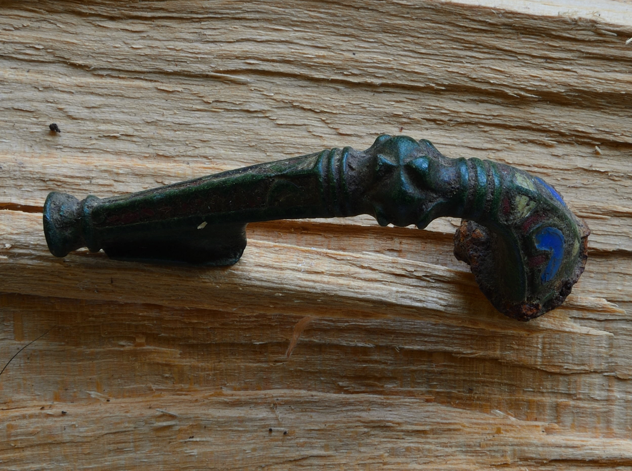 Found in the Roman site in Upper Holt wood by Richard Keatinge, about 1967